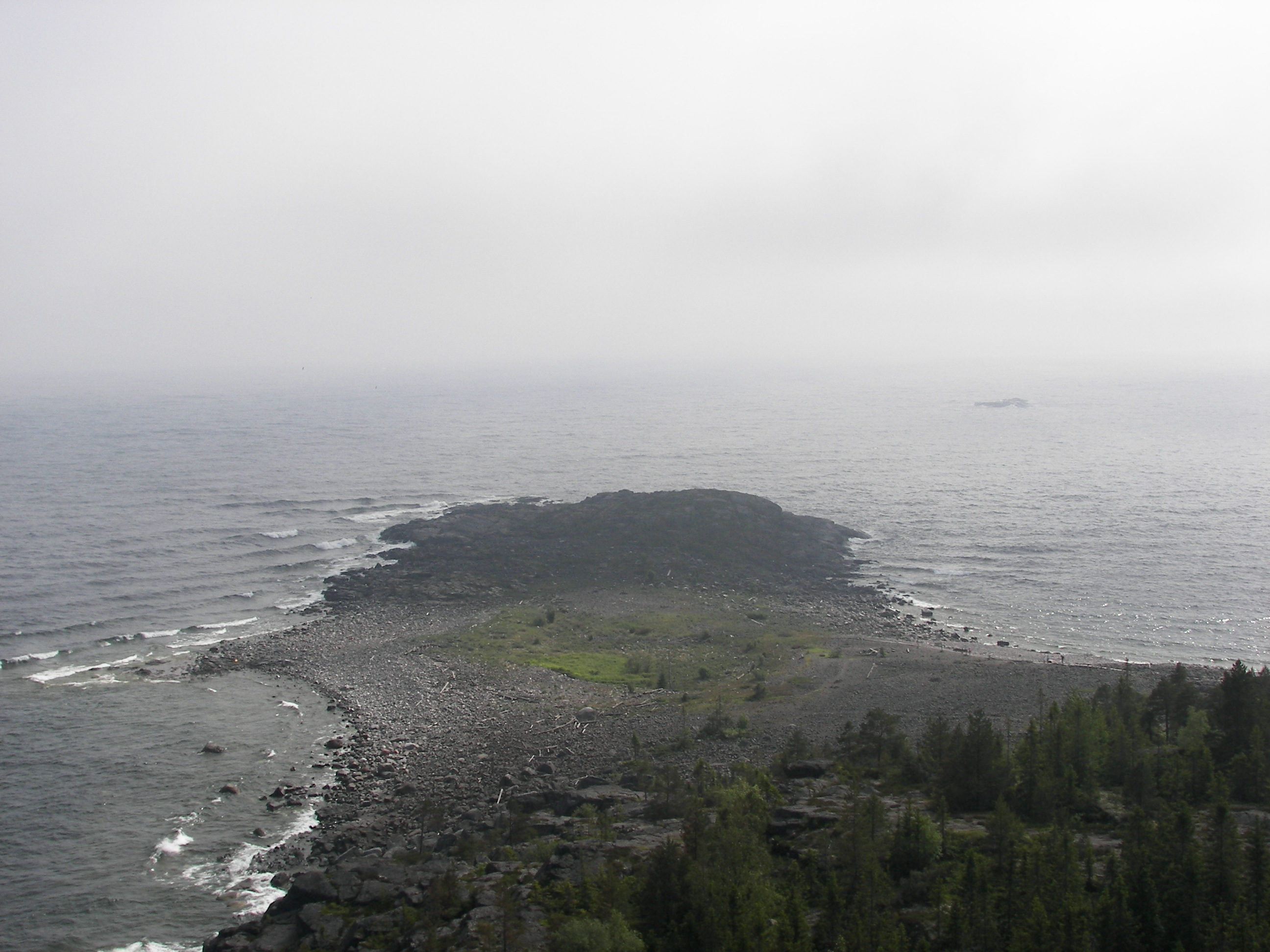 Högbonden - 'Klubbudden'